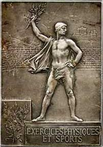 Plaque of the 1900 Olympic Games photography, reproduction, no restrictions on use